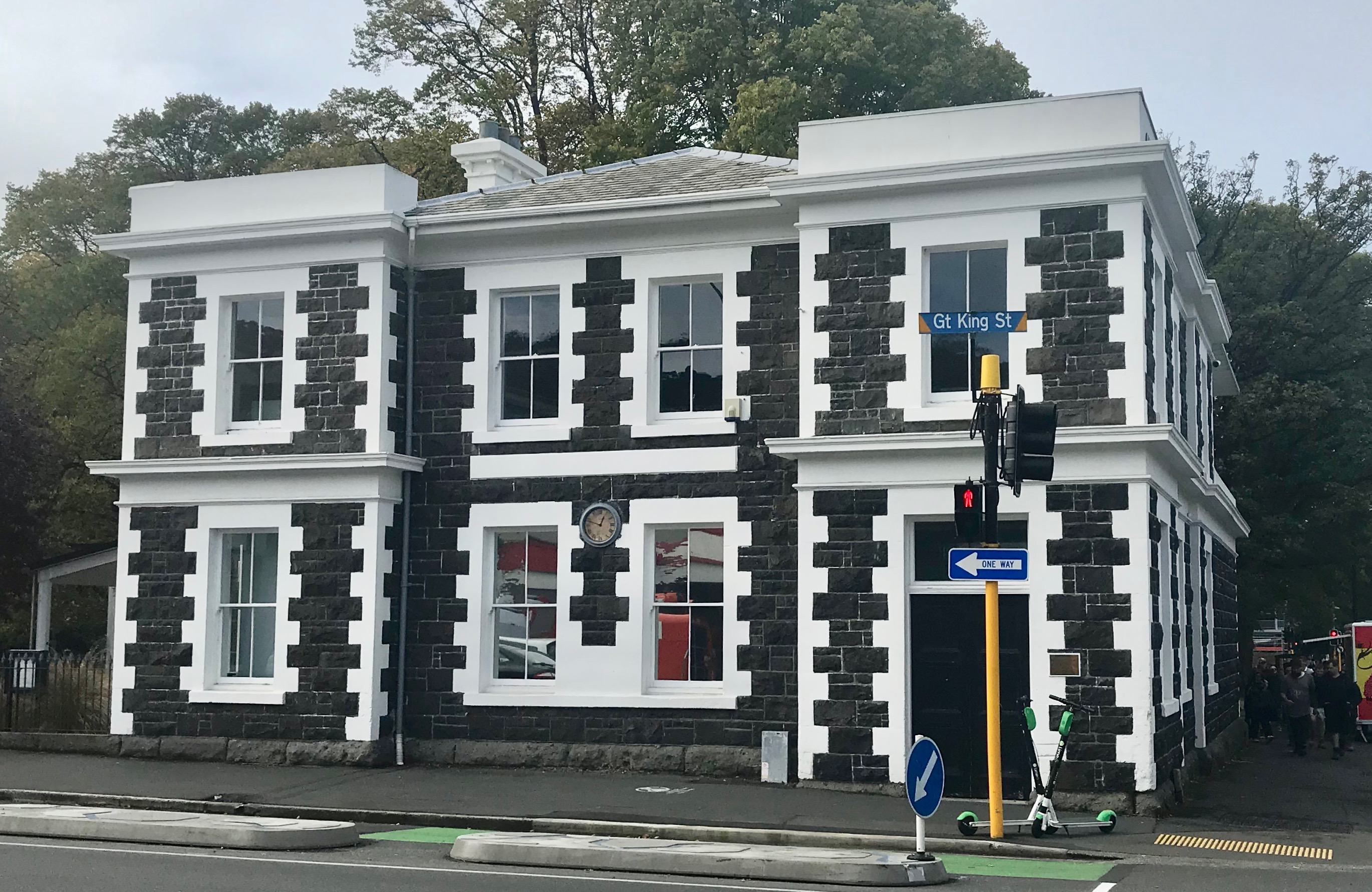 H.D. Skinner Annex building, formerly the Dunedin North Post Office, Otago Museum (Q7108347), Dunedin, New Zealand